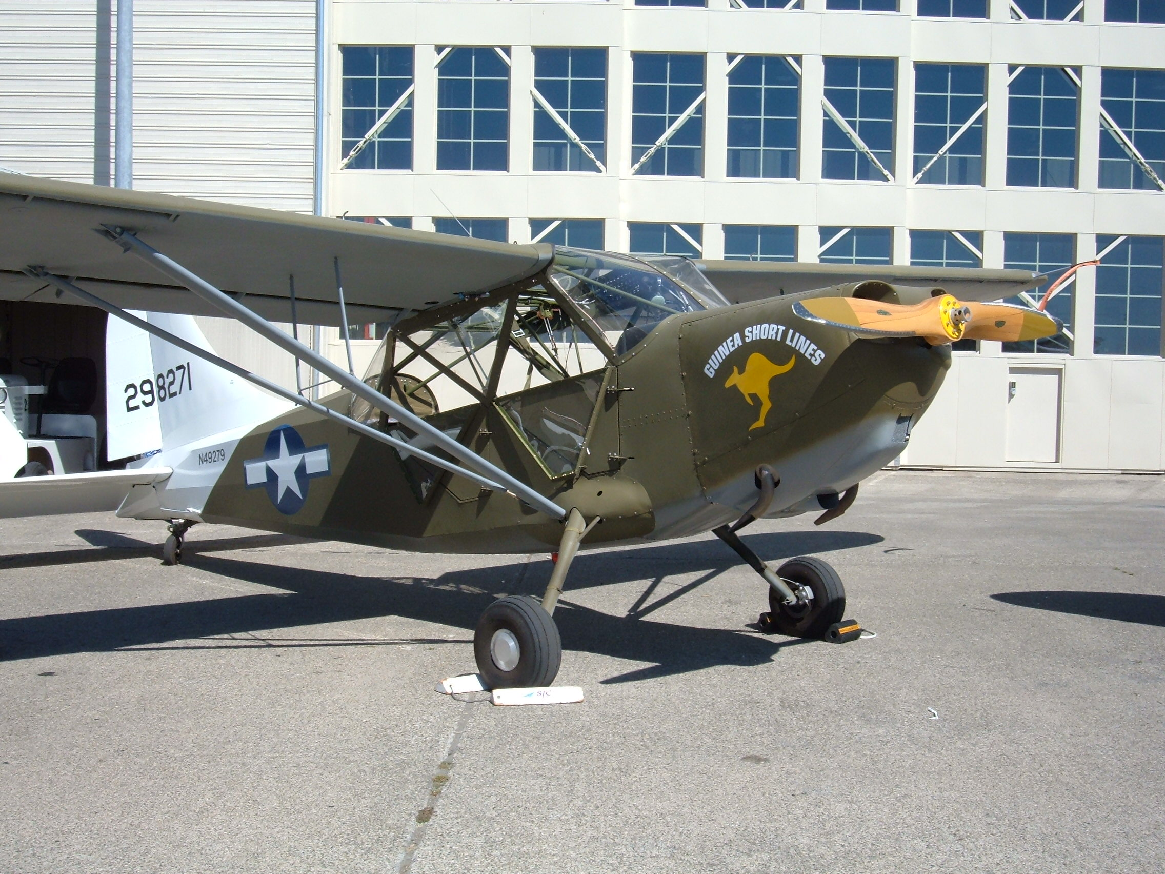 L-5 Sentinel on static display at the Wings over Wine Country 2007 air show at the Charles M. Schulz - Sonoma County Airport in Sonoma County, California.